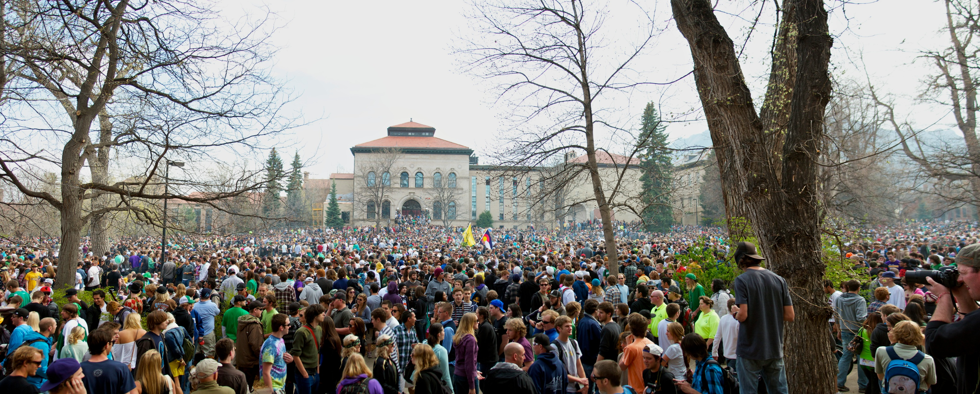 Pure. Madness. 420 in Boulder is like Easter at the Vatican. My first time going down there and it was quite an experience. Never "participated" before (I like my lungs lol) but I definitely got some secondhand munchies! 5 portraits stitched together check it out large-this is pretty huge and lets you get a good feel for the scene.